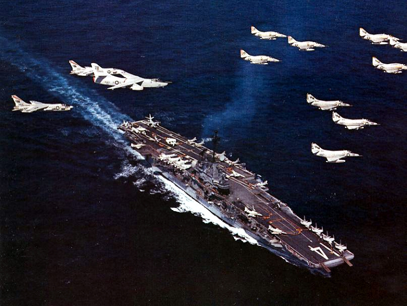 Aircraft of the U.S. Navy Carrier Air Wing 19 (CVW-19) in flight. CVW-19 was assigned to the aircraft carrier USS Ticonderoga (CVA-14) for a deployment to Vietnam from 28 December 1967 to 17 August 1968. The composition of aircraft shows the typical mix of an air wing that was assigned to an Essex-class attack carrier in 1967: two fighter squadrons (VF) flying the Vought F-8 Crusader, three attack squadrons (VA) flying the Douglas A-4 Skyhawk, and a detachmnet of a heavy attack squadron with the A-3B Skywarrior. Not shown are the detachments of a reconnaissance squadron (RF-8 Crusader, VFP) and of an early warning squadron (E-1B Tracer, VAW).